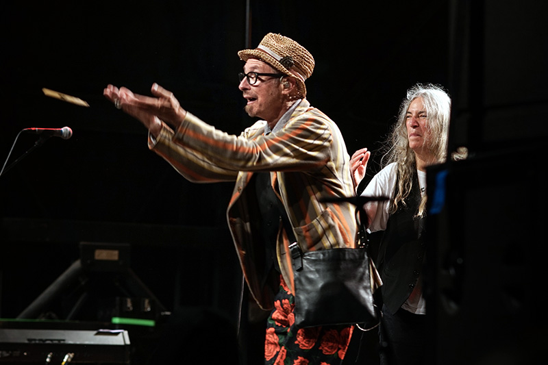 Jay Dee Daugherty and Patti Smith in Denmark 2017